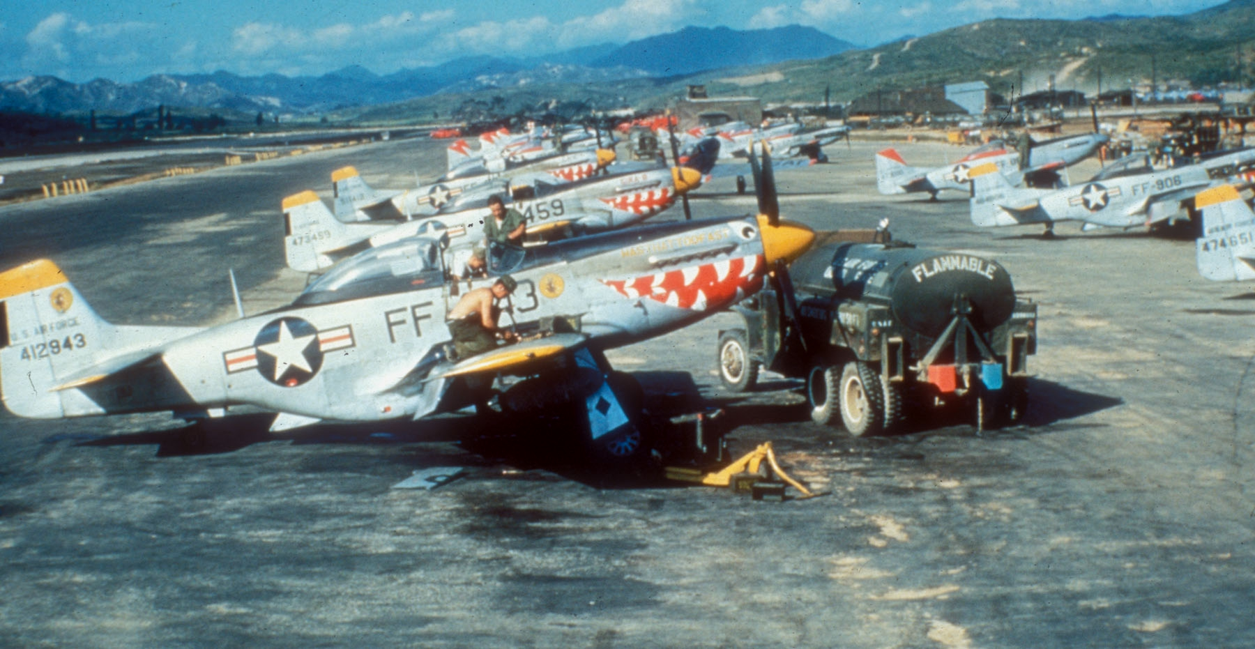 Shark-mouthed U.S. Air Force North American F-51D Mustang fighters of the 12th Fighter-Bomber Squadron, 18th Fighter-Bomber Wing during the Korean War. The 12th FBS flew the F-51 from 9 December 1950 to 2 June 1952. In front is F-51D-20-NT s/n 44-12943. The red-finned F-51Ds belonged to the 67th FBS.